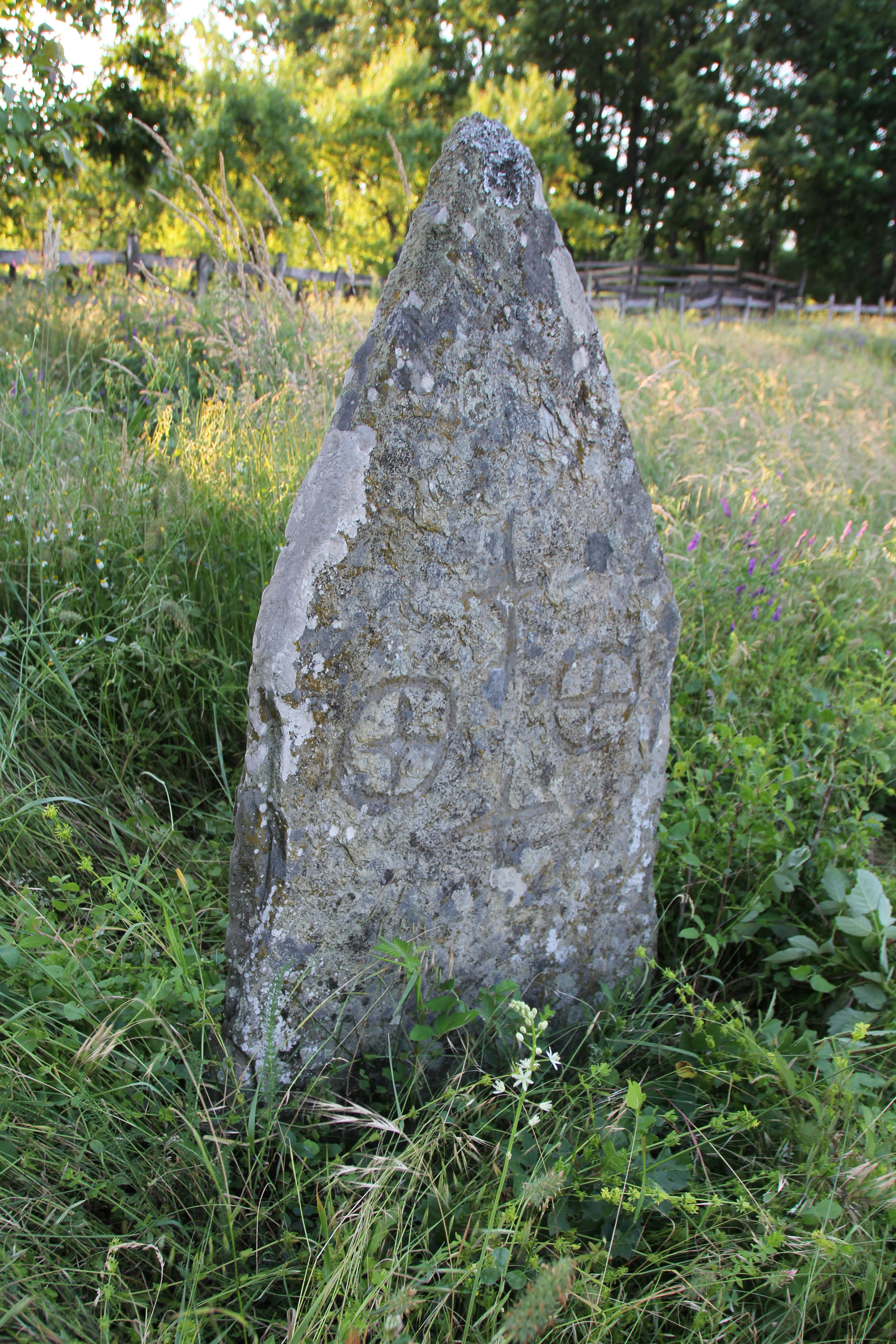 Old tombstone in the village of Majdan, hamlet Rapsinci (the municipality of Gornji Milanovac), Serbia.